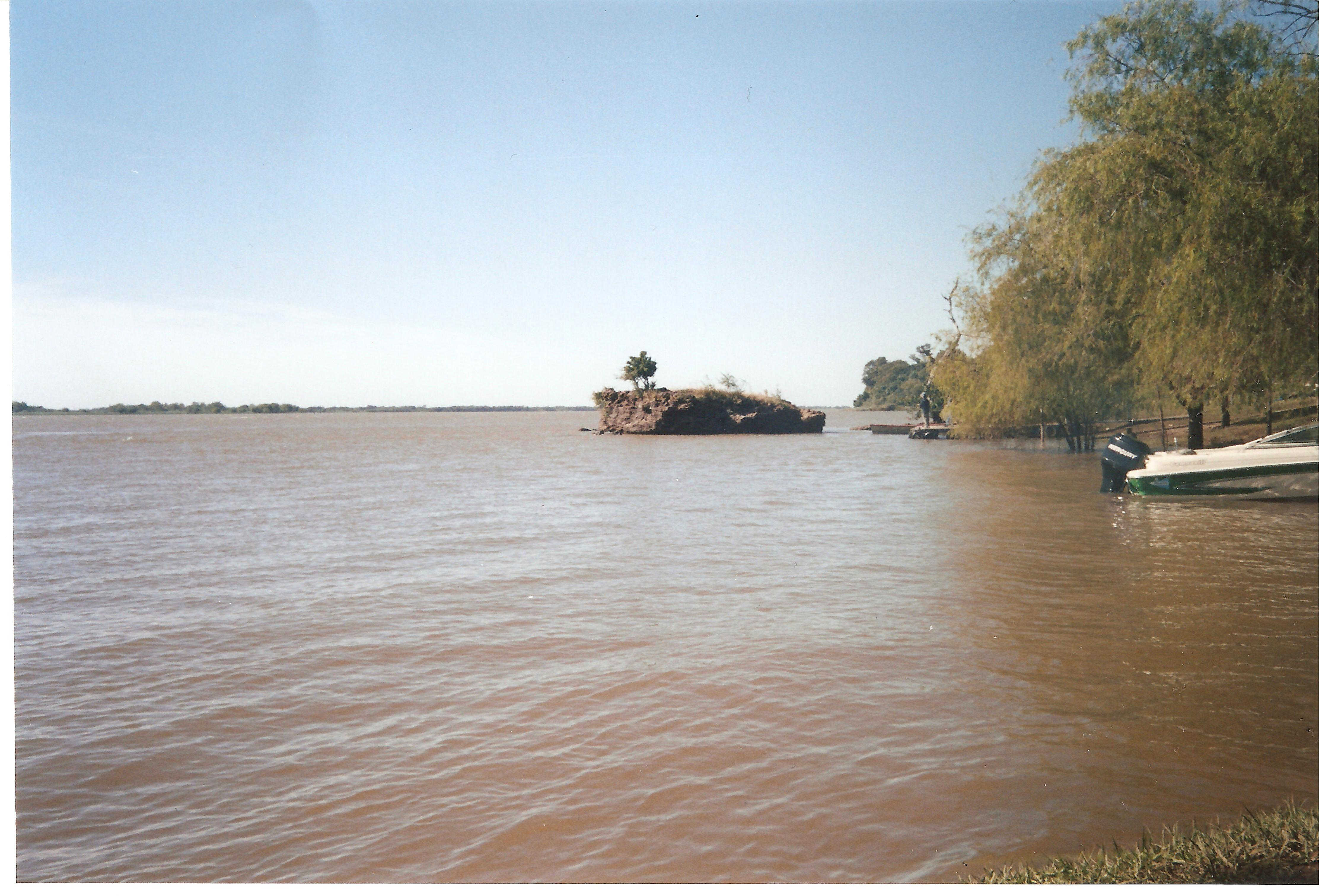 Paraná River in Itatí, Corrientes, Argentina. Photo is taken from a camping that has a sand beach 200 meters away from main square.